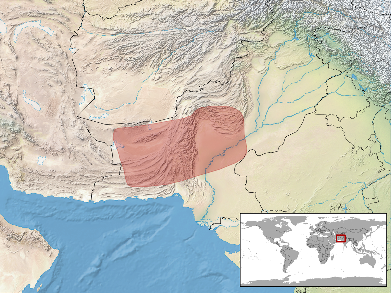 geographic distribution of Asiocolotes depressus (Native: Pakistan)